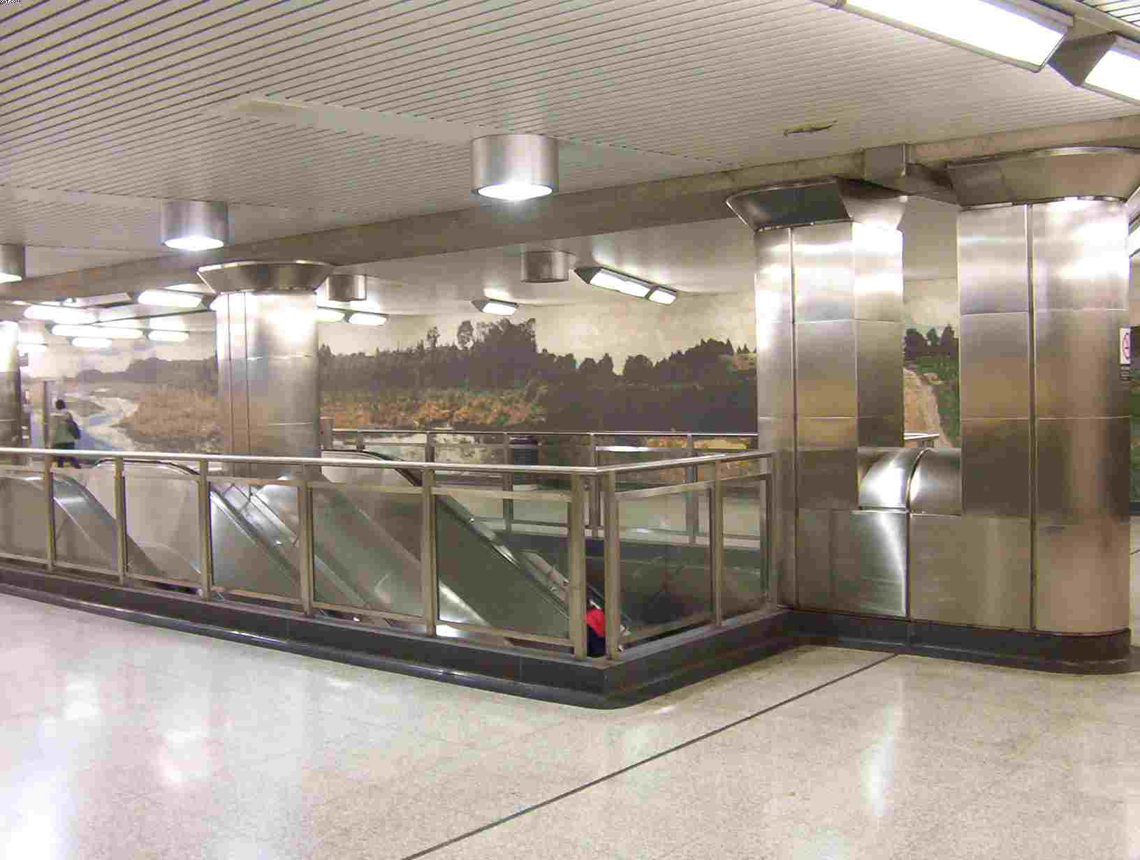 Toronto Subway, Sheppard-Yonge station: Escalators from eastbound platform down to north-south platform; Spiegel's Immersion Land can be seen at the back